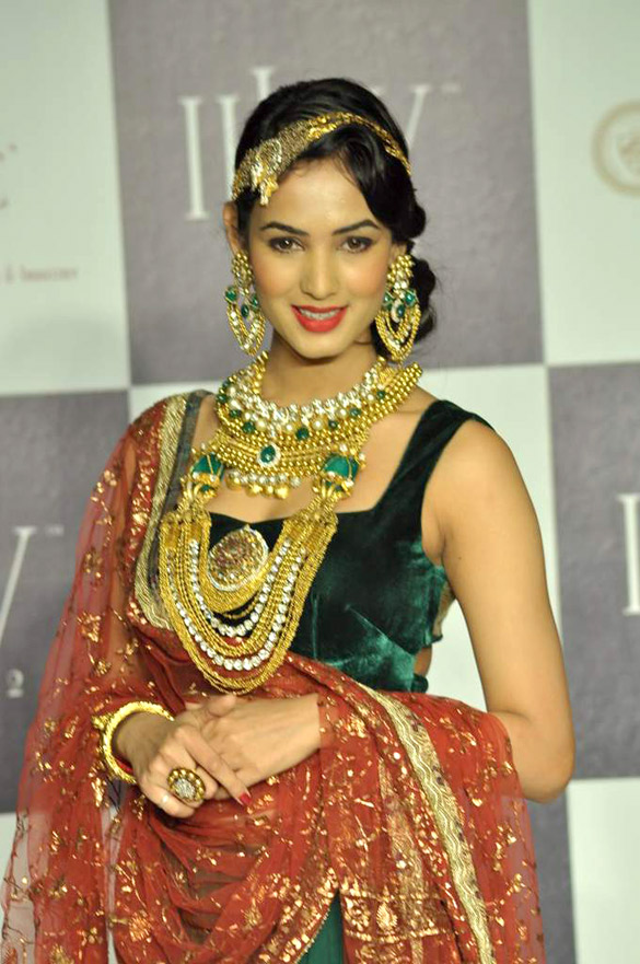 Sonal Chauhan walks the ramp for Deepti & Amisha at IIJW 2012 Day - 2